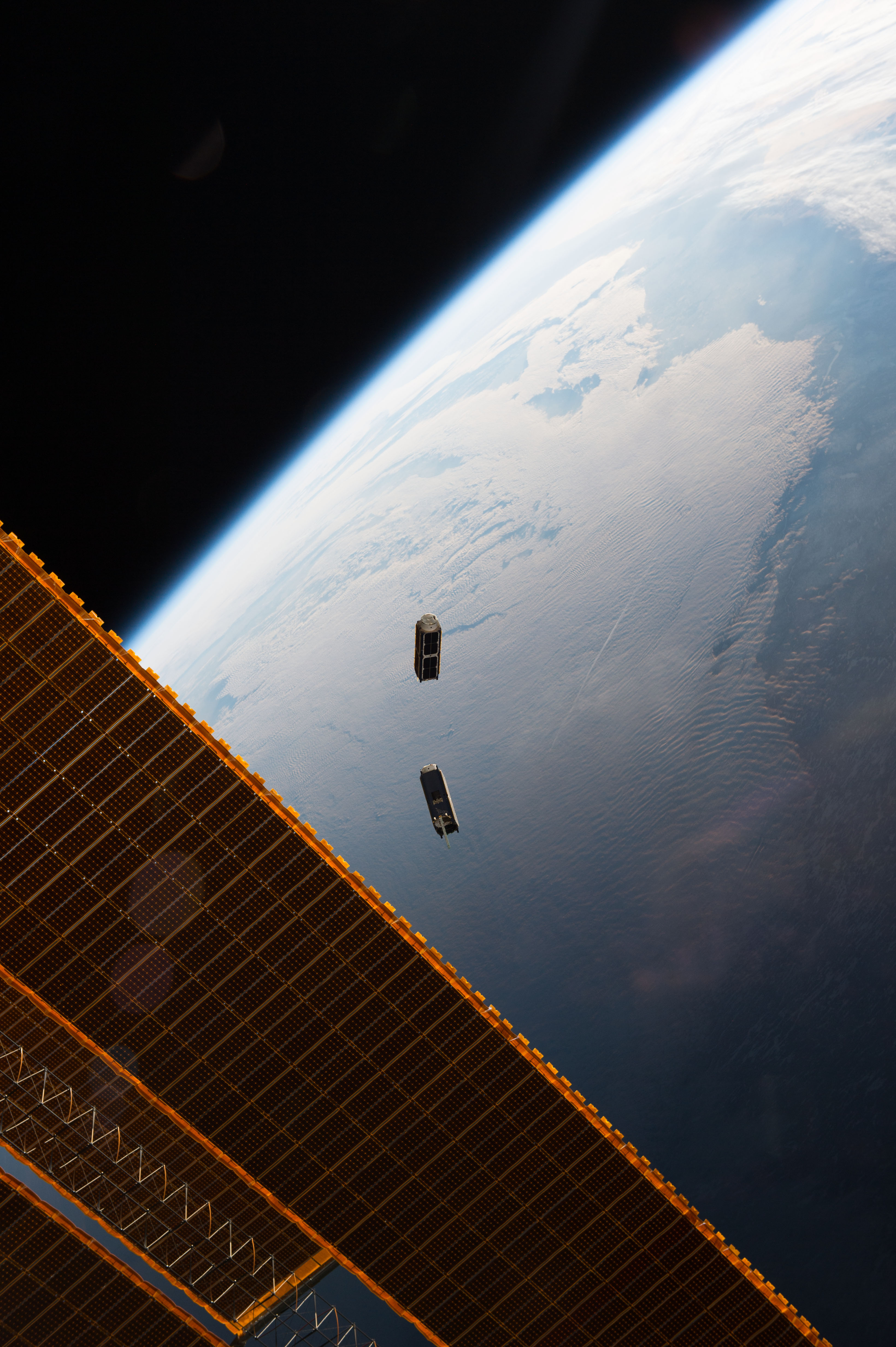 CubeSats fly free after leaving the NanoRacks CubeSat Deployer on the International Space Station. Seen here are two Dove satellites. The satellites are part of a constellation designed, built and operated by Planet Labs Inc. to take images of Earth from space. The images have several humanitarian and environmental applications, from monitoring deforestation and urbanization to improving natural disaster relief and agricultural yields in developing nations.